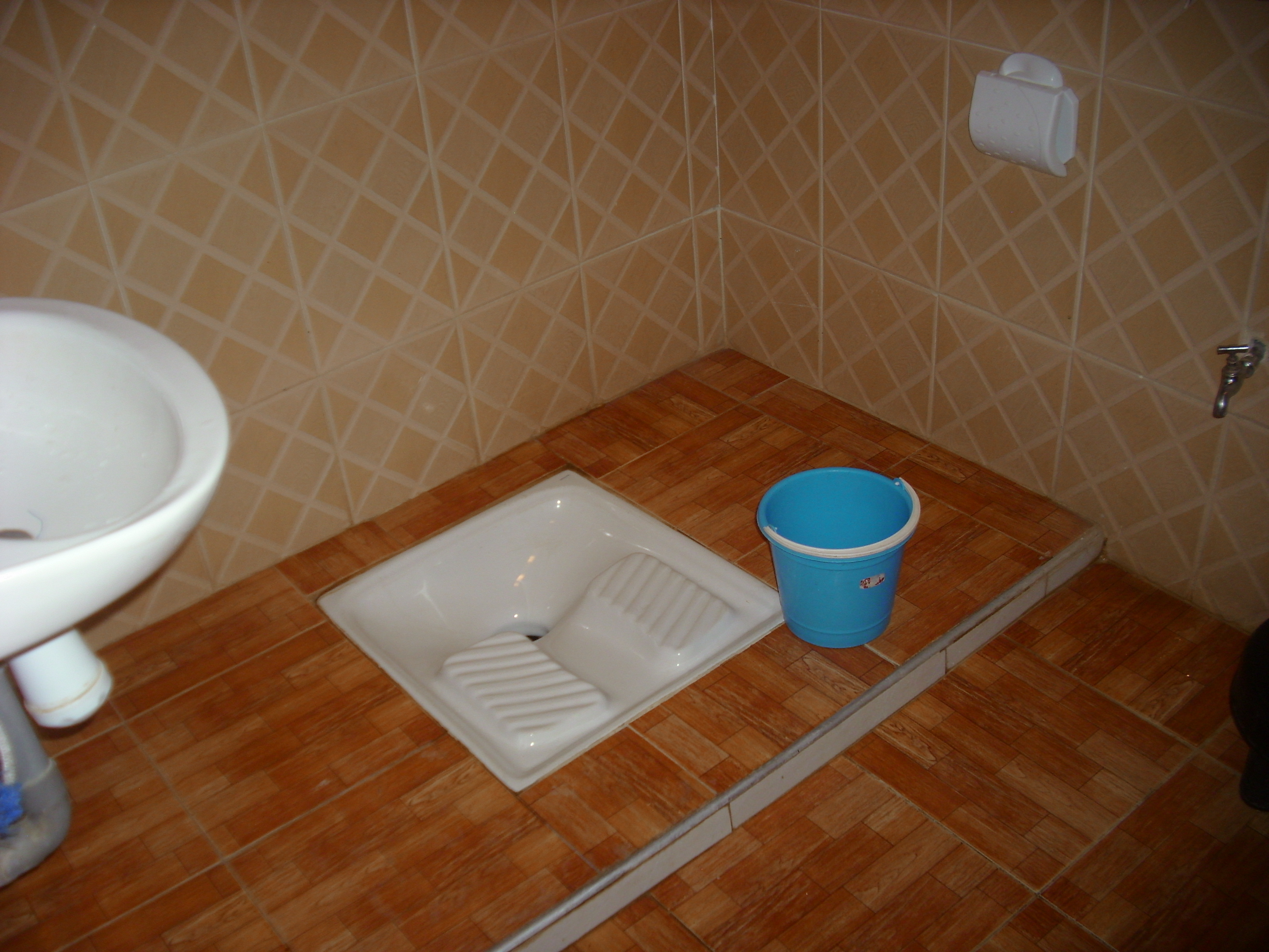 photo by Marc Wauthelet